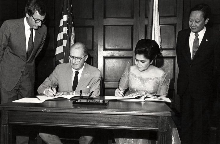 Howard Malcolm Baldridge, U.S. Secretary of Commerce, with Imelda Marcos